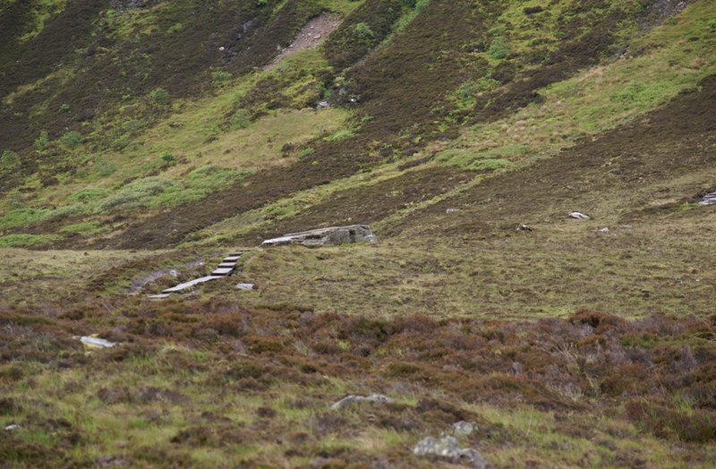 Dwarfie Stane, Hoy, Orkneys, Scotland. View of the valley from the northwest.